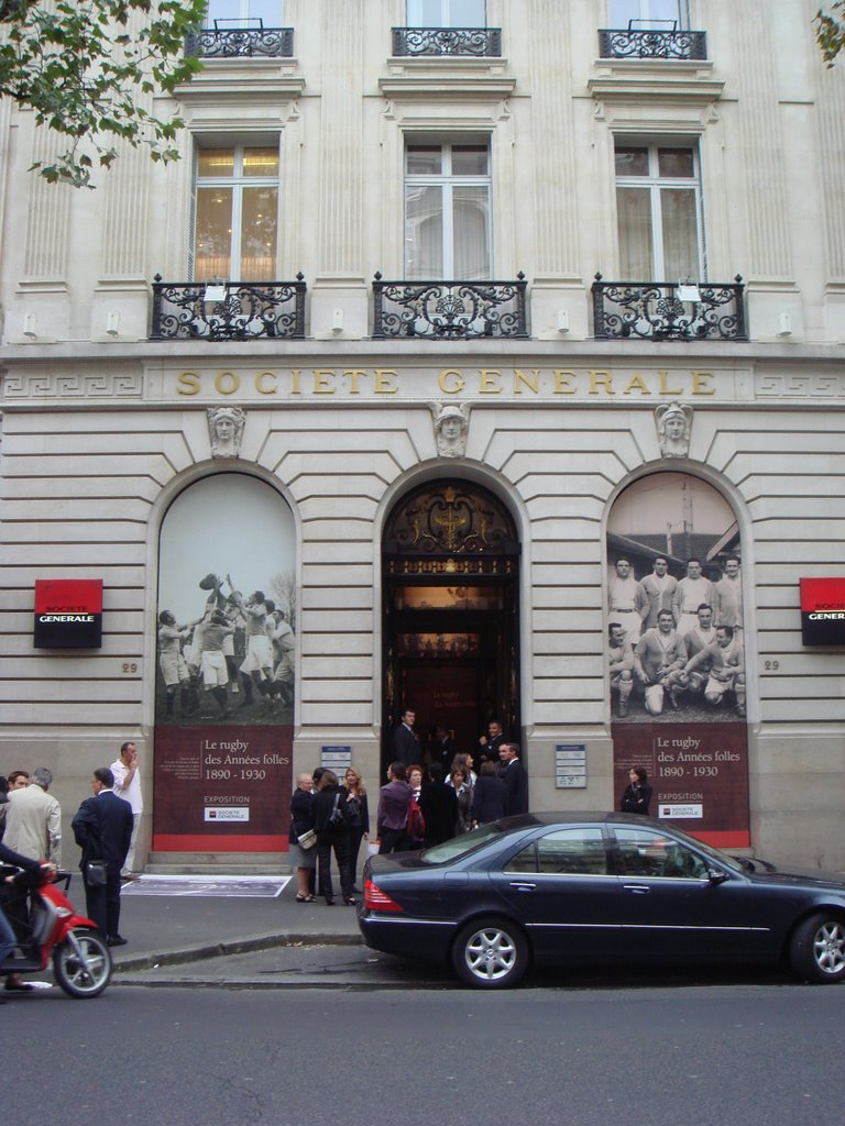 The registered offices of Société Générale - Formerly the administrative headquarters